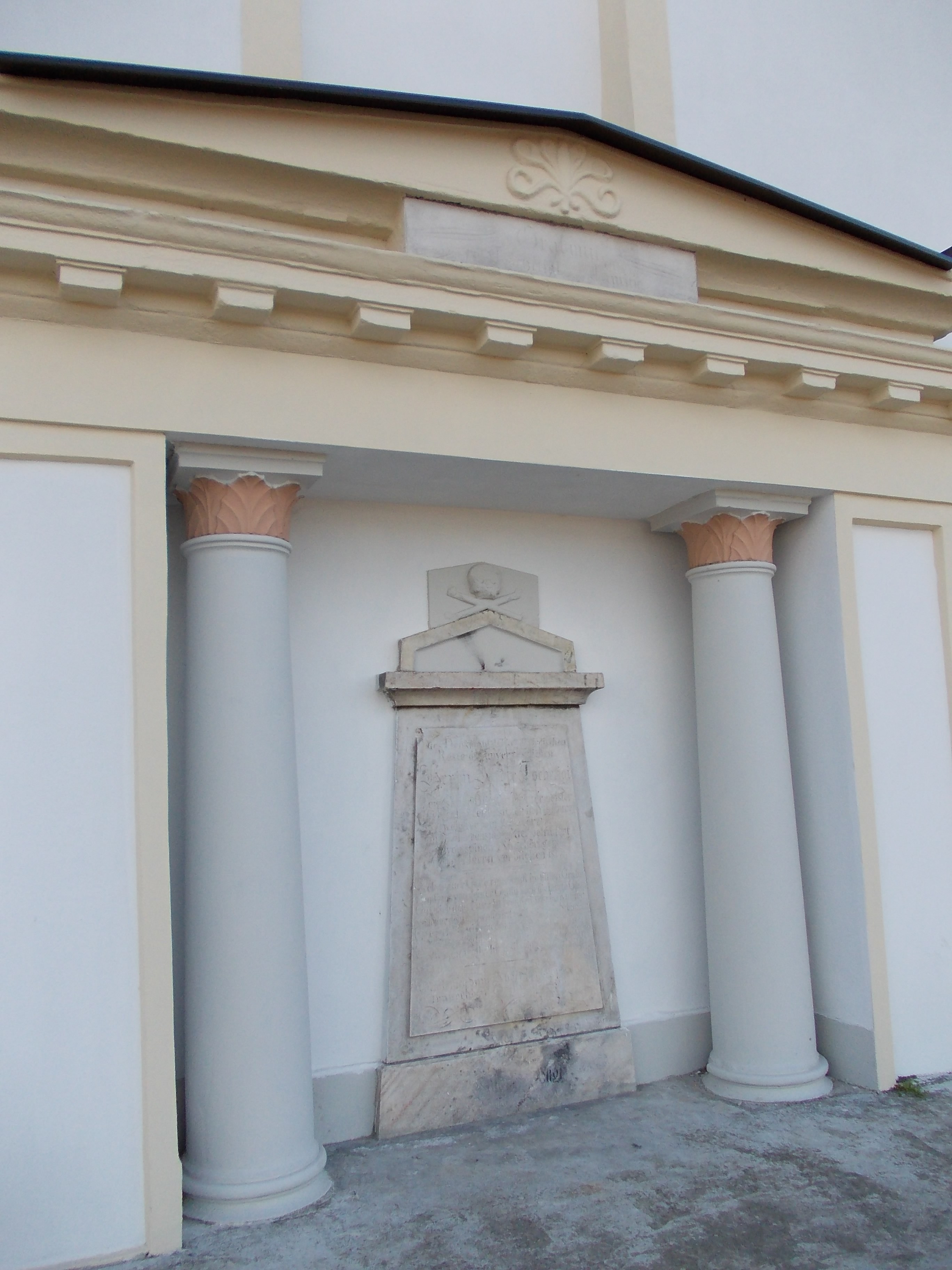 Pekrska gorca church